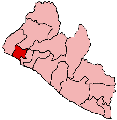 Map of Liberia showing Bomi County; created with the GIMP. Made by User:Acntx.